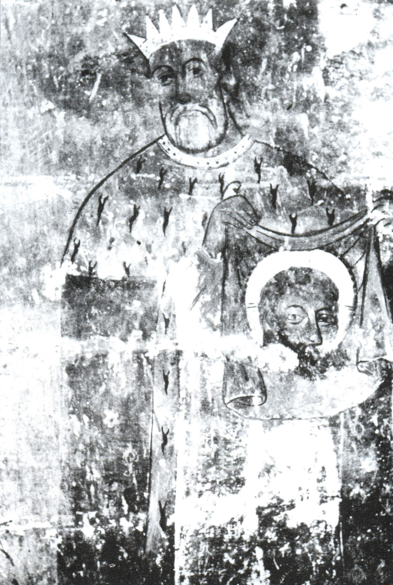 Armenian king Abgar from Edessa holding the mandylion, the image of Christ. Fresco from Varaga St. Gevorg Chapel.